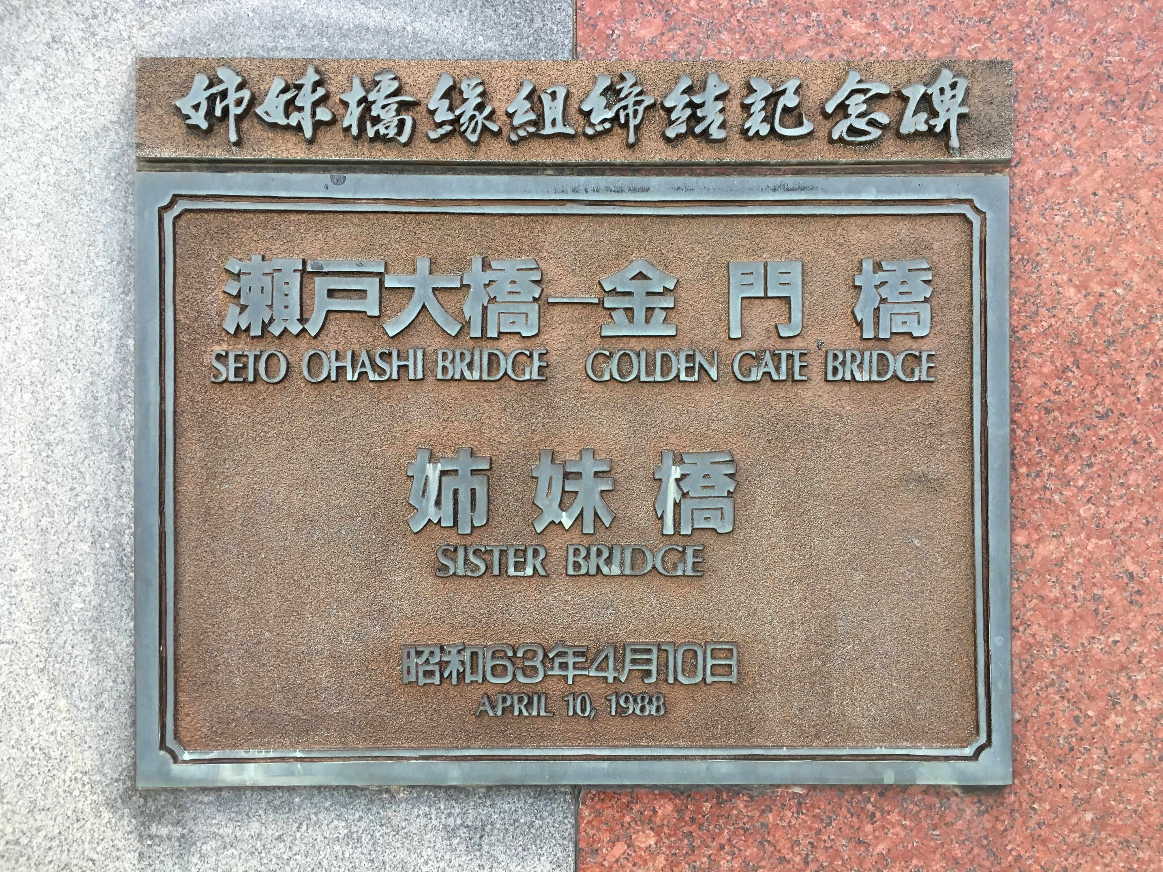 A plaque denoting the "Sister Bridge" friendship between the Great Seto Bridge (瀬戸大橋, Seto Ōhashi) connecting Okayama and Kagawa prefectures in Japan, and the Golden Gate Bridge in San Francisco, California, United States